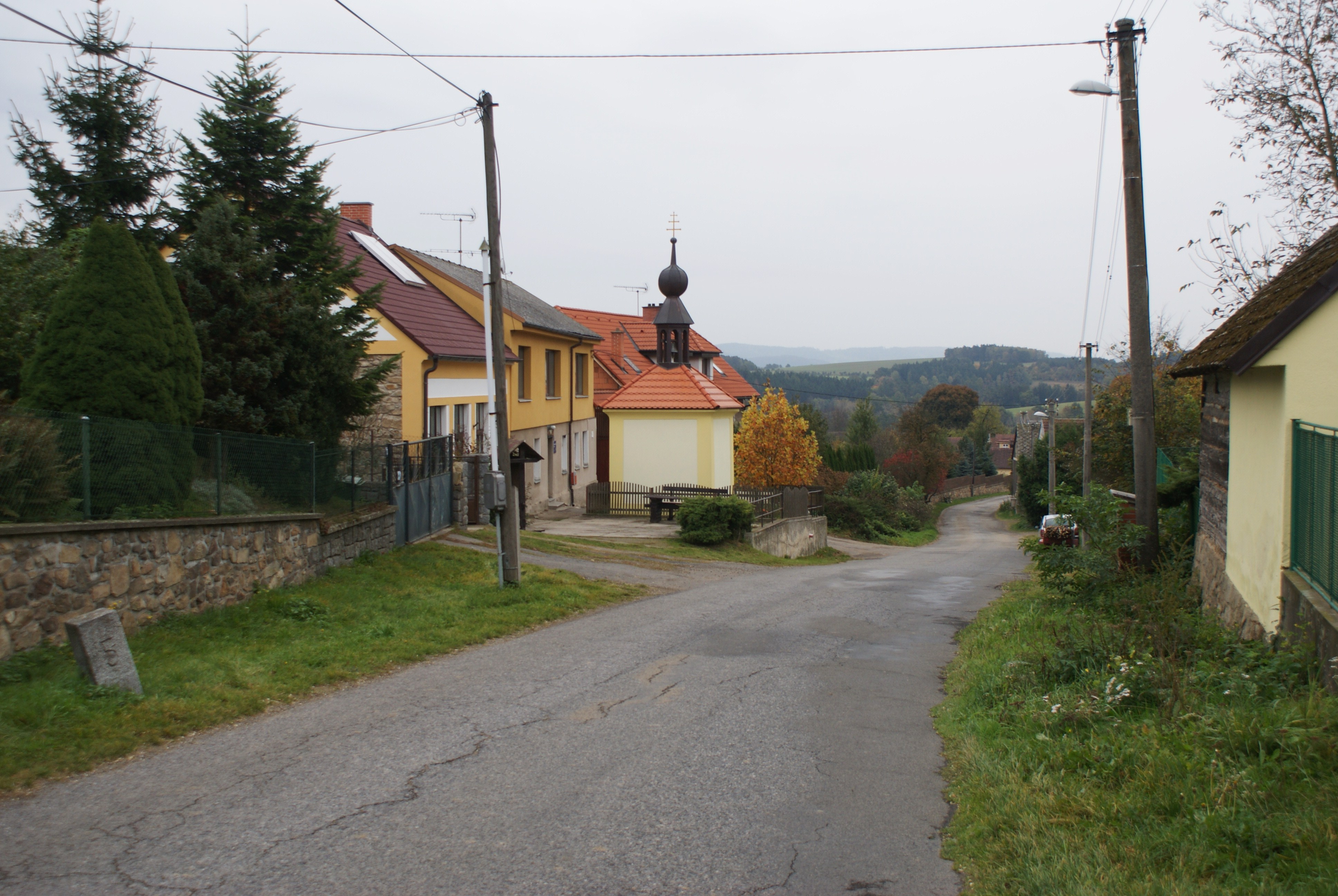 This photograph was taken within the scope of the Czech 'Photo Workshops' grant.